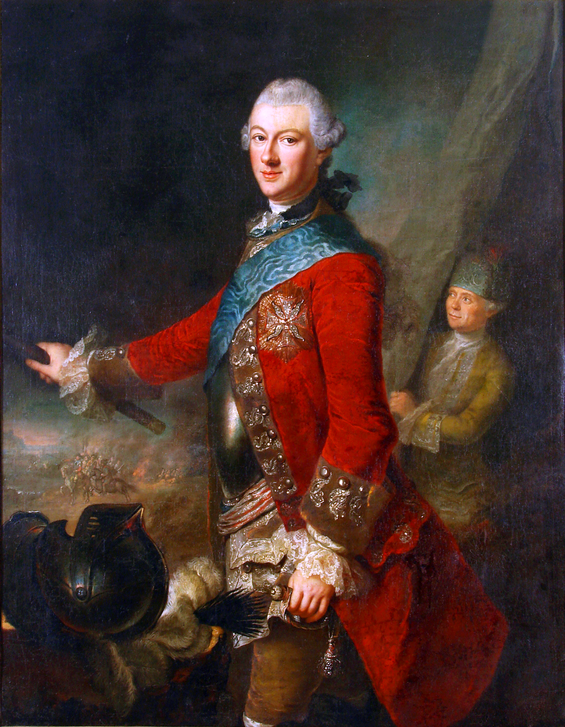 Portrait of Michał Kazimierz Ogiński (1730-1800) Grand Hetman of Lithuania